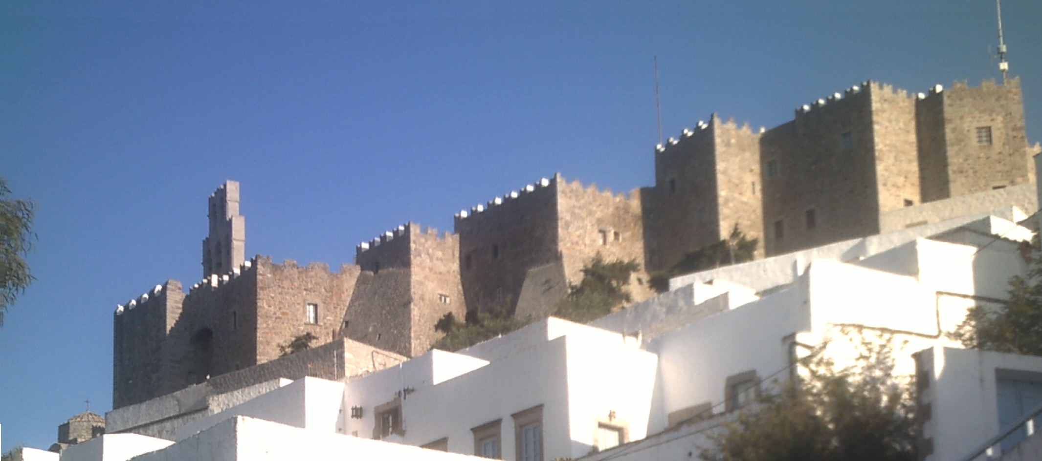 Patmos, Monastery of Saint John the Theologian